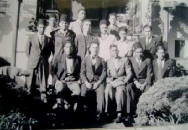 The founder members of the USM Oran in 1926